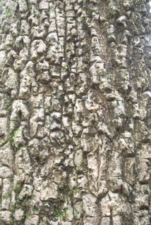 Caldcluvia_paniculosa at Banda Banda, NSW Australia